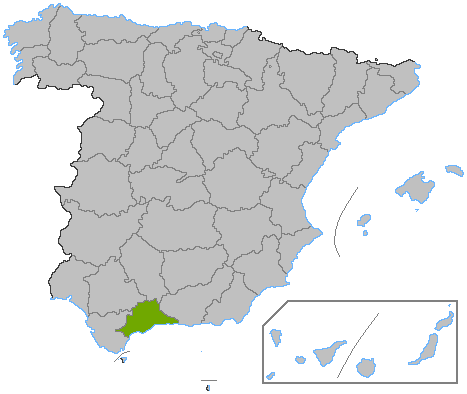 Location of the province of Málaga, in Spain.